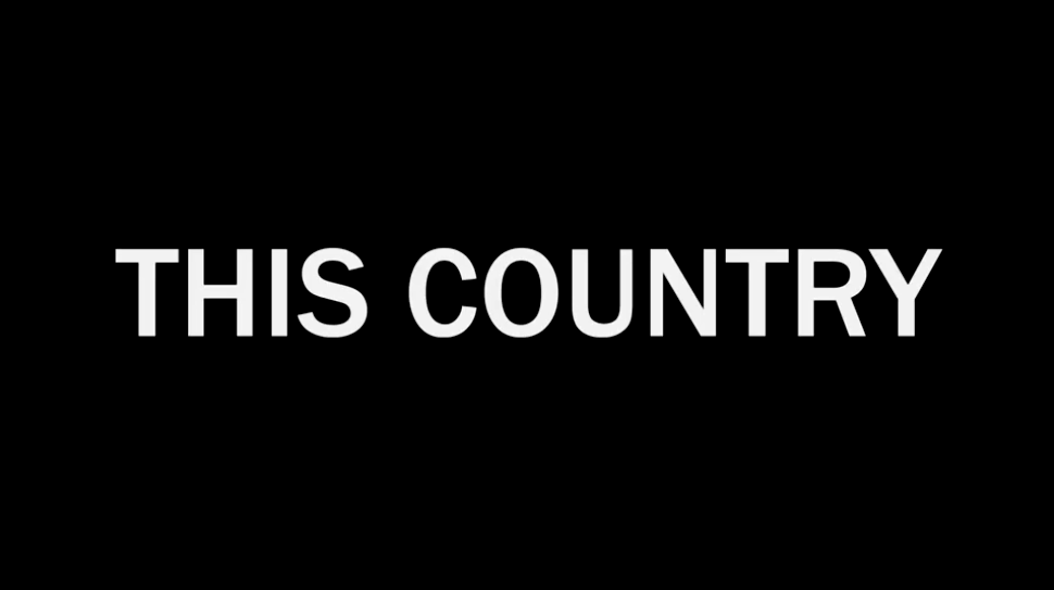 BBC title card for This Country.